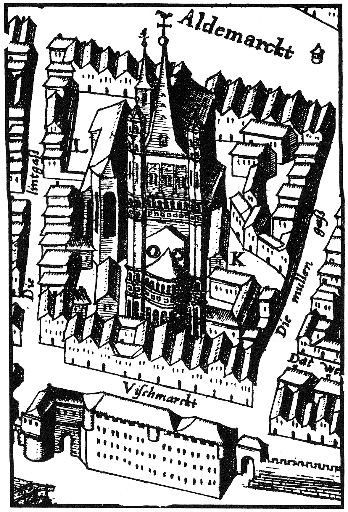 Cutout of a city map with Groß St. Martin, Cologne